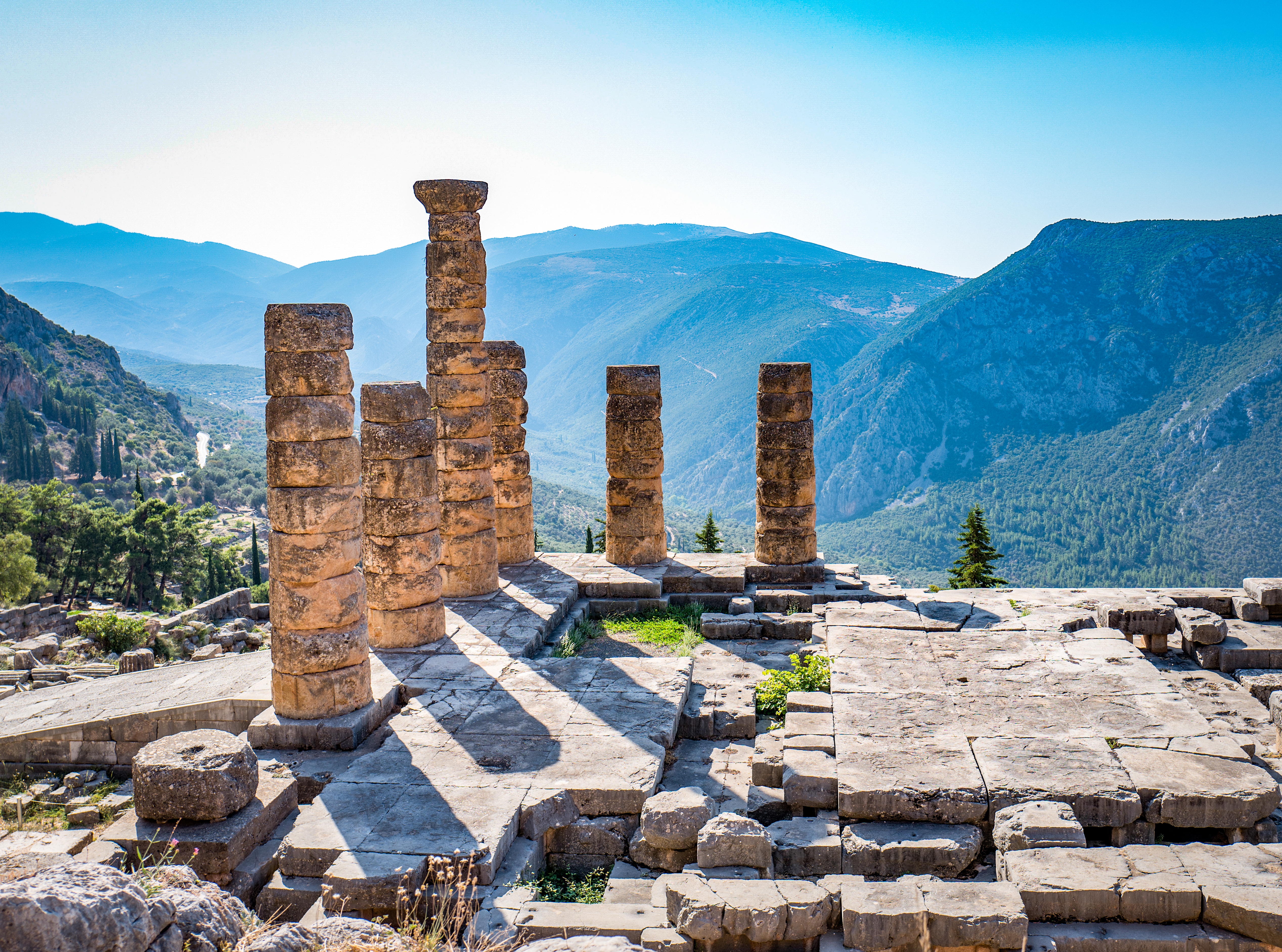 Ruins of the ancient Temple of Apollo at Delphi, overlooking the valley of Phocis.